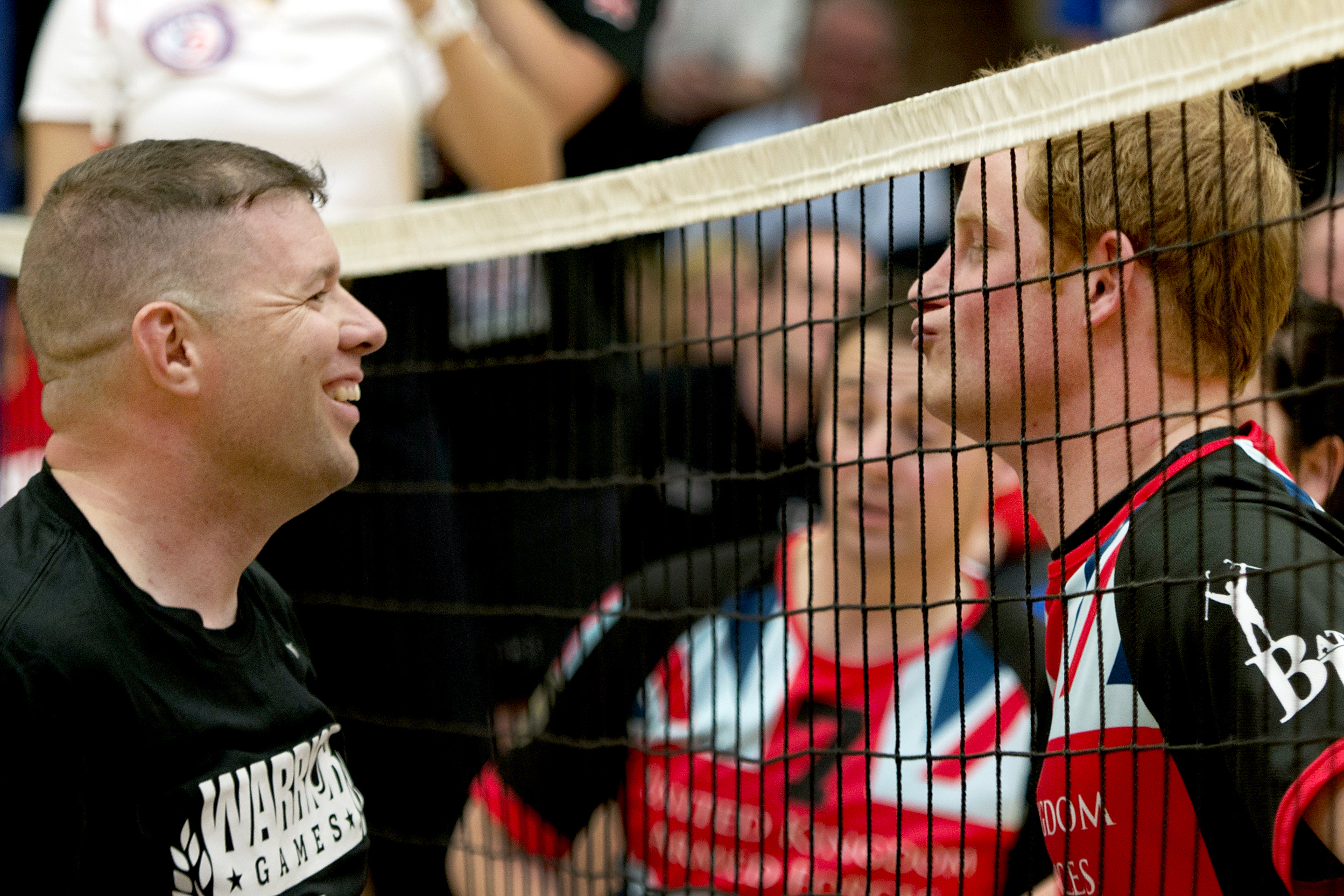 Prince Henry of Wales competes in Warrior Games volleyball exhibition.